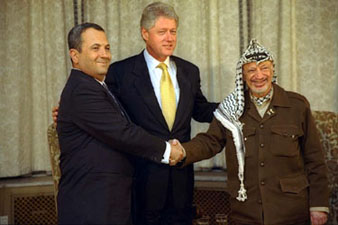 Arafat and Barak in peace negotiations.